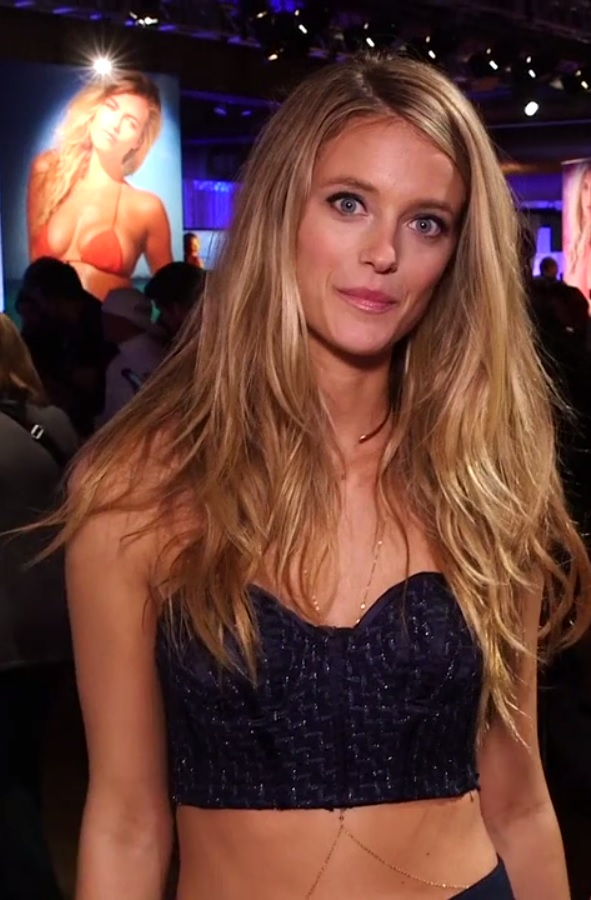 Canadian fashion model Kate Bock at Sports Illustrated Swim City fan festival in New York City in 2016, interviewed by Arthur Kade of Behind the Velvet Rope TV.